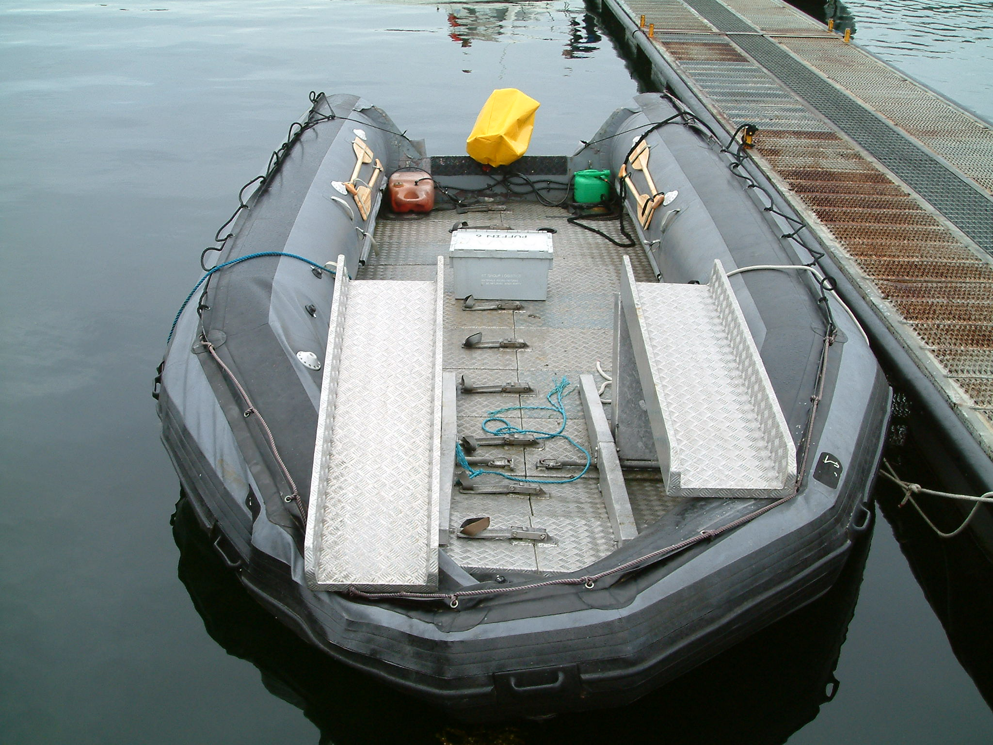 A car carrying inflatable boat at Oban Summary A car carrying inflatable boat at Oban